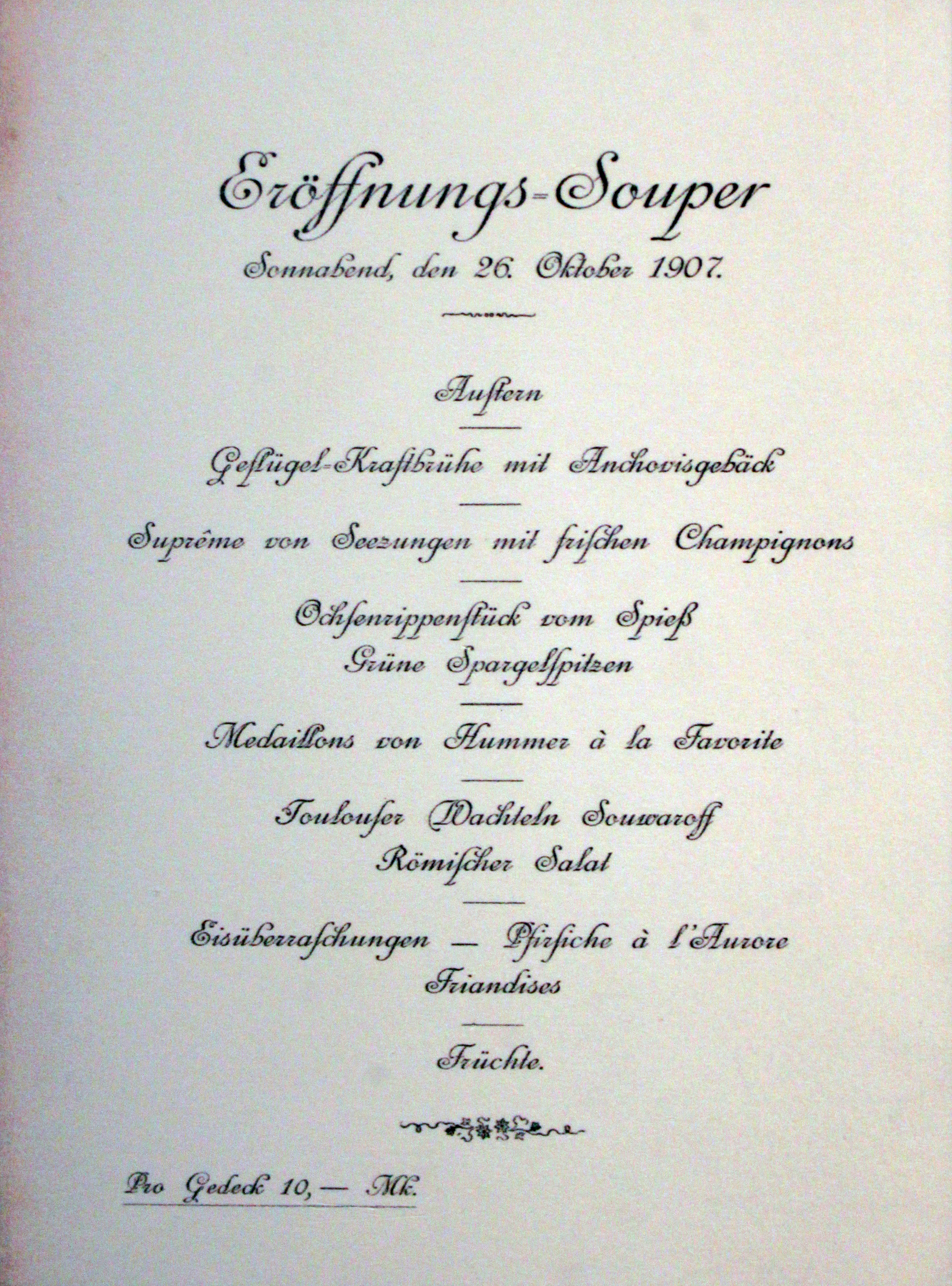 Menu of Hotel Adlon, Berlin, 26 October 1907